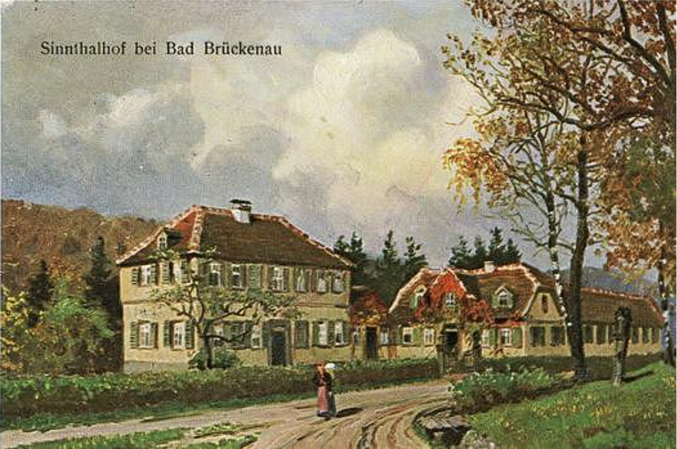 Sinntalhof (old writing: Sinnthalhof or Sinnthalshof) is a mansion of the Moritz family between the village Brueckenau and the Bavarian State spa Bad Brueckenau which was erected in 1821. Through marriage of Moritz' daughter Amelie (1868–1918) the estate became property of the Putz family. Her husband Sebastian Putz (1867–1937) in 1920 gave it over to his eldest son Ernst Putz (1896–1933).